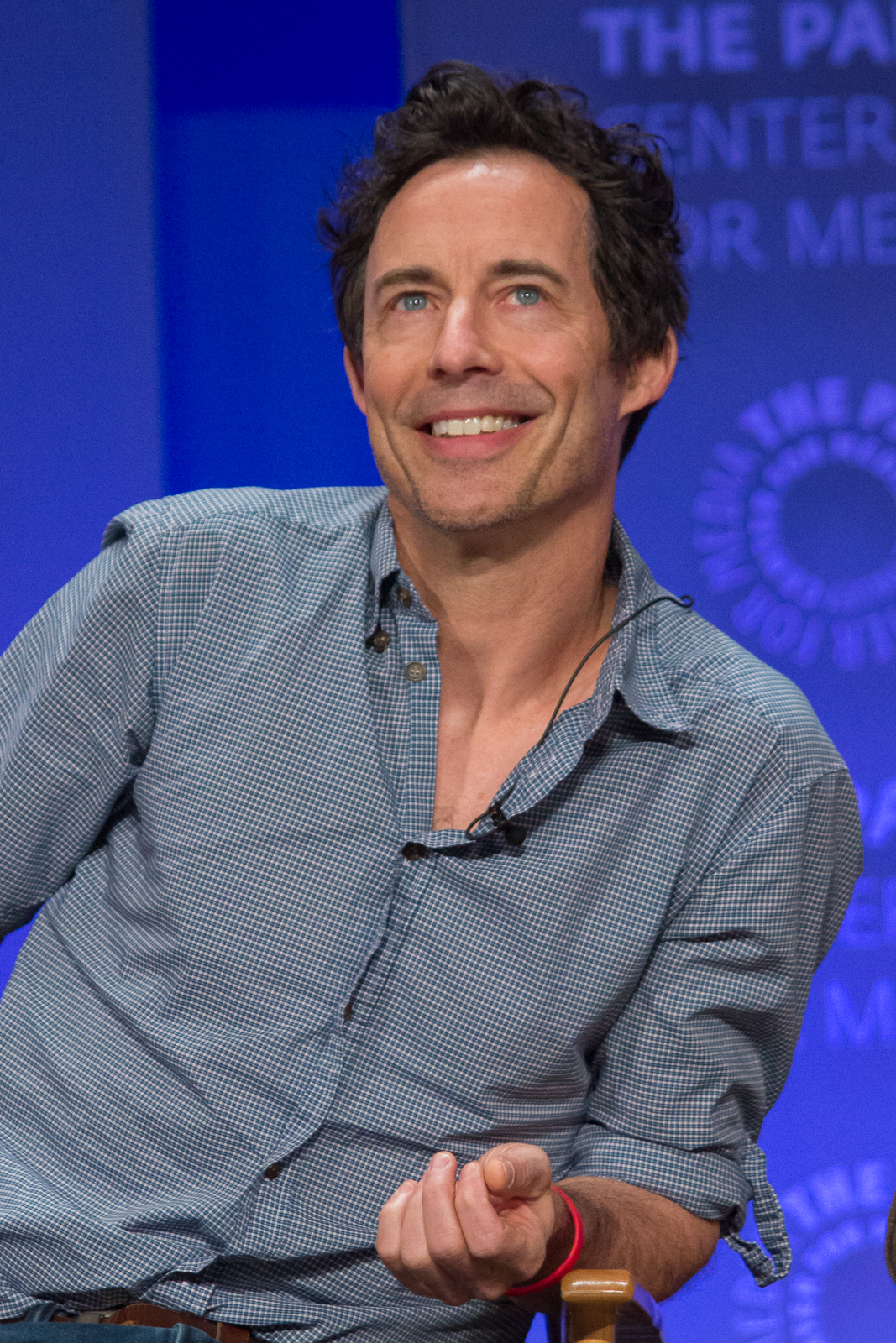 Tom Cavanagh at the PaleyFest 2015 presentation for "The Flash"